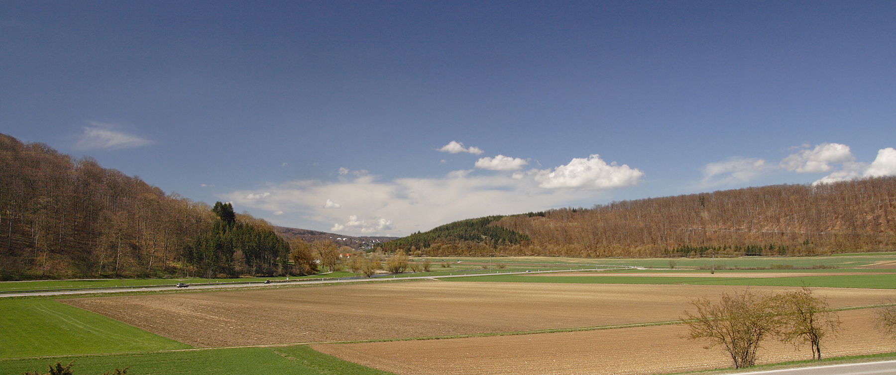 Valley of river Brenz. Todays upper Brenz (hidden beyond the road) is a poor danubian rivulet. Rivulet and valley beyond it are a strictly protected nature reserve, the visible part of the valley is a protected landscape (Landschaftschutz). The 600m wide valley, ca. 3,5km south of its karst springs (town Königsbronn in the back) cannot be eroded by its contemporary poor rivulet. River Brenz is one of the oldest rivers of Southwest Germany. This is backed by 20 Million years old ”Ochsenberg Schotter”, (river gravel) in a village high above the valley. The catchment area of a pleistocene Brenz reached far beyond the northern border of the Swabian Alb. The main water devide, now dividing the springs of river Kocher (to the N, river Neckar) and those of river Brenz (to the S, river Danube), occured when the power of water erosion turned to be less than the uplift of the Swabian Alb.